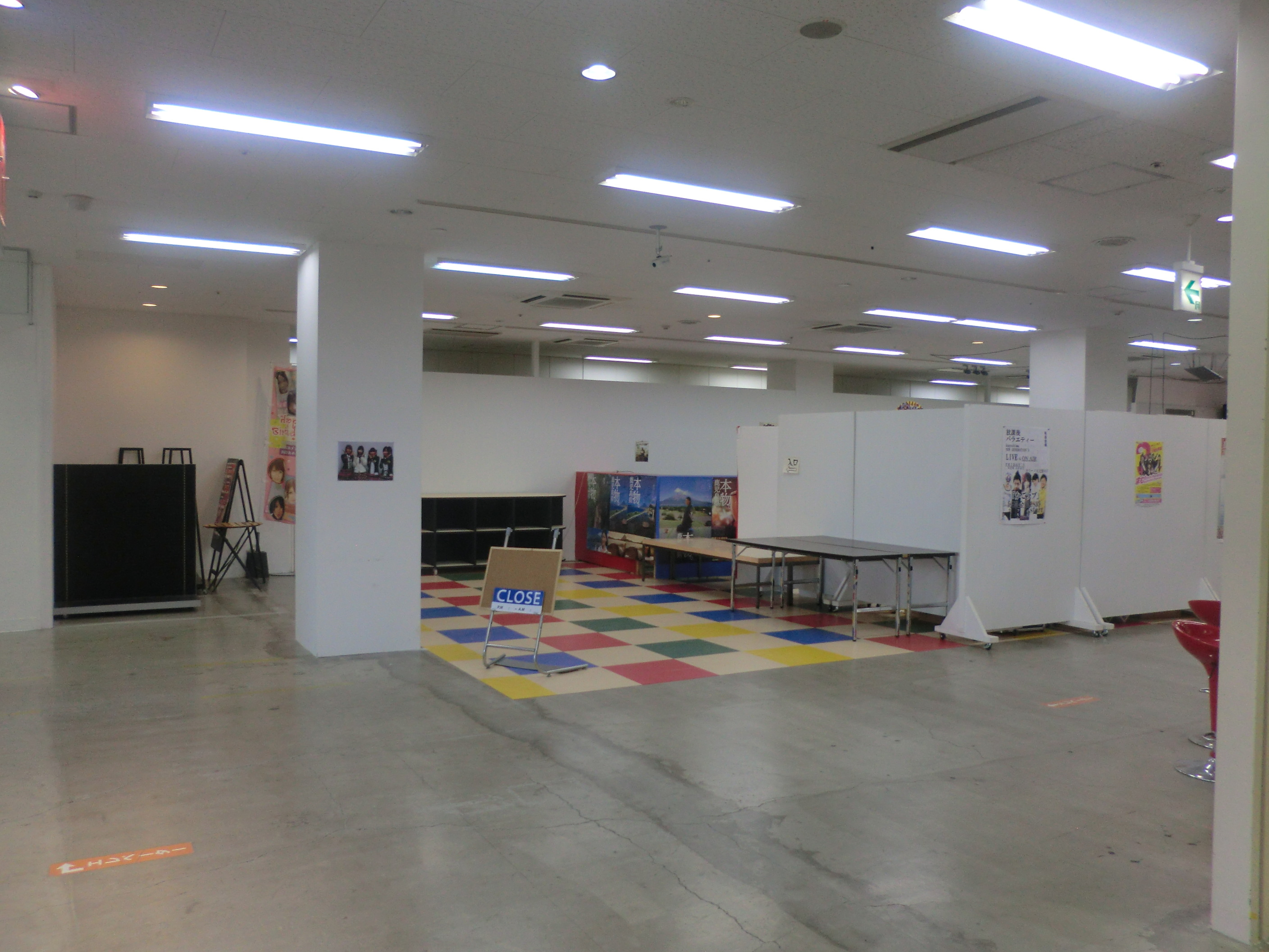 Entrance of "Idol theater egg" in Tenmonkan area,Kagoshima,Japan. This theater is main theater of S★UTHERN CROSS(Idol group of Kagoshima). It includes live space and goods shop.